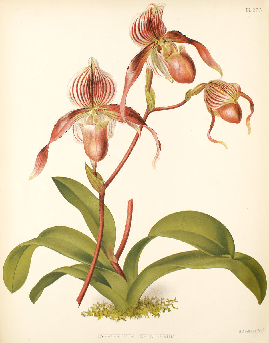 Paphiopedilum x selligerum (Paphiopedilum barbatum x Paphiopedilum philippinense)